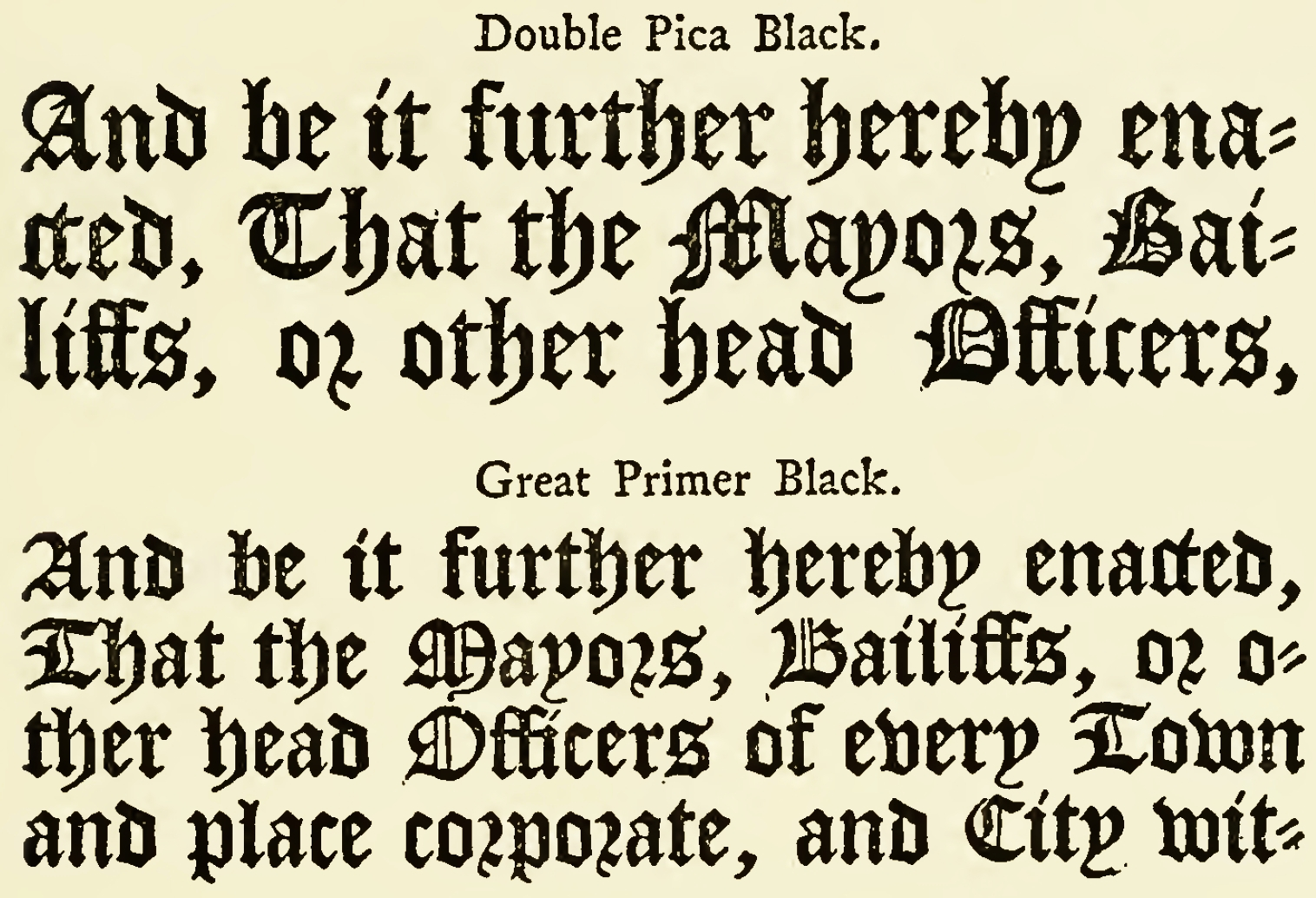 Excerpt of a page from: William Caslon I (1692-1766), William Caslon & Son's Specimen. Printed 1763 in London. Showing several specimens of the r rotunda. Information according to: Updike, Daniel Berkeley: Printing Type – their History, Forms, and Use. Boston (USA), 1922. Vol. II, p. 104/105. Scan taken from: ibid., insertion after p. 106.